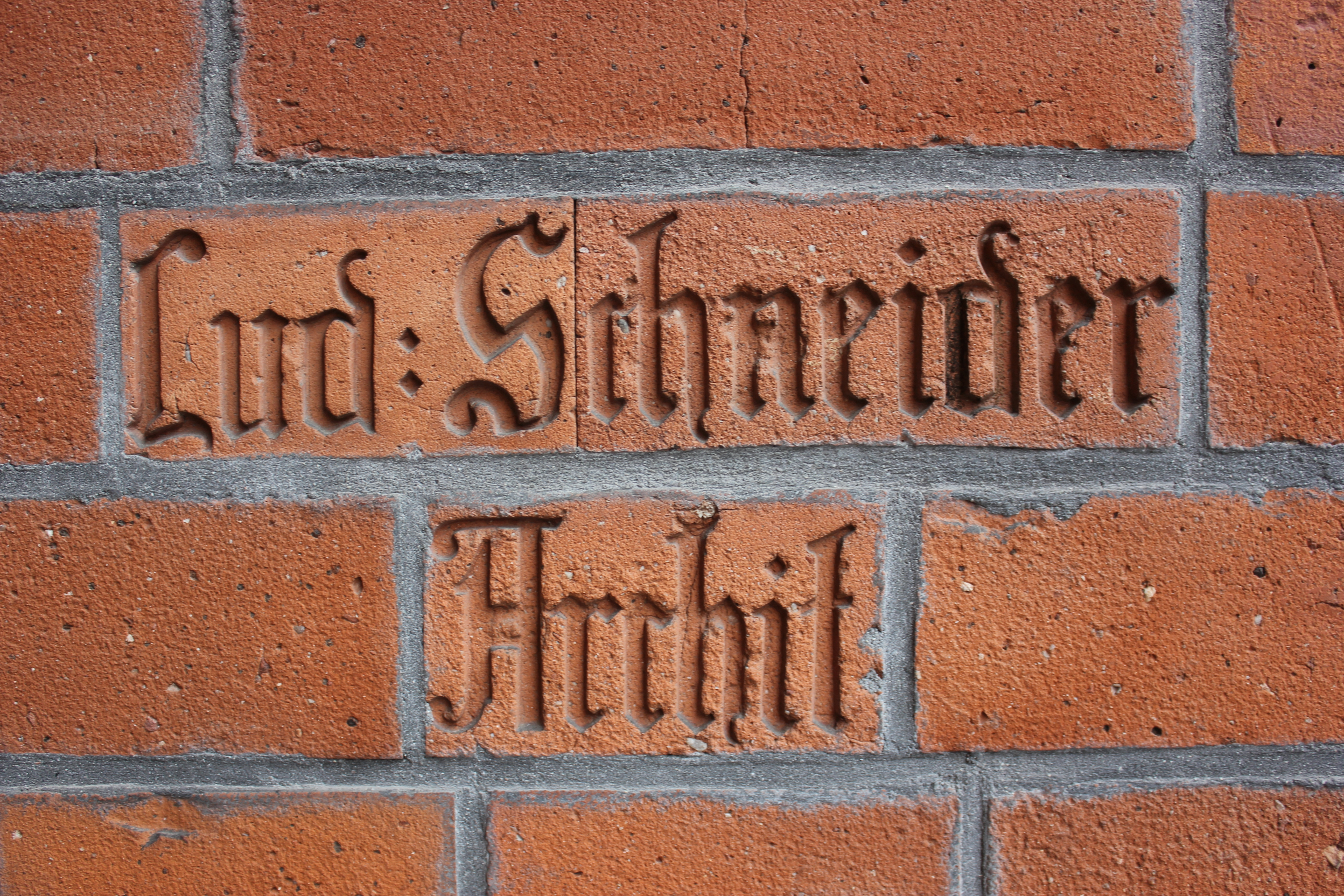 Chorzów - Assumption church